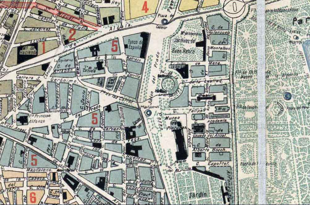 Detail of 1906 Madrid street map.